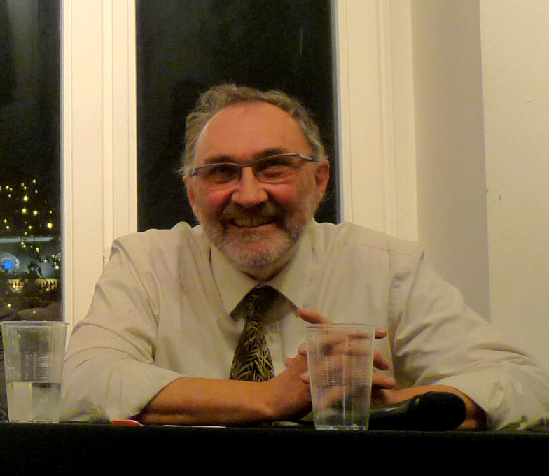 French academic Philippe Breton